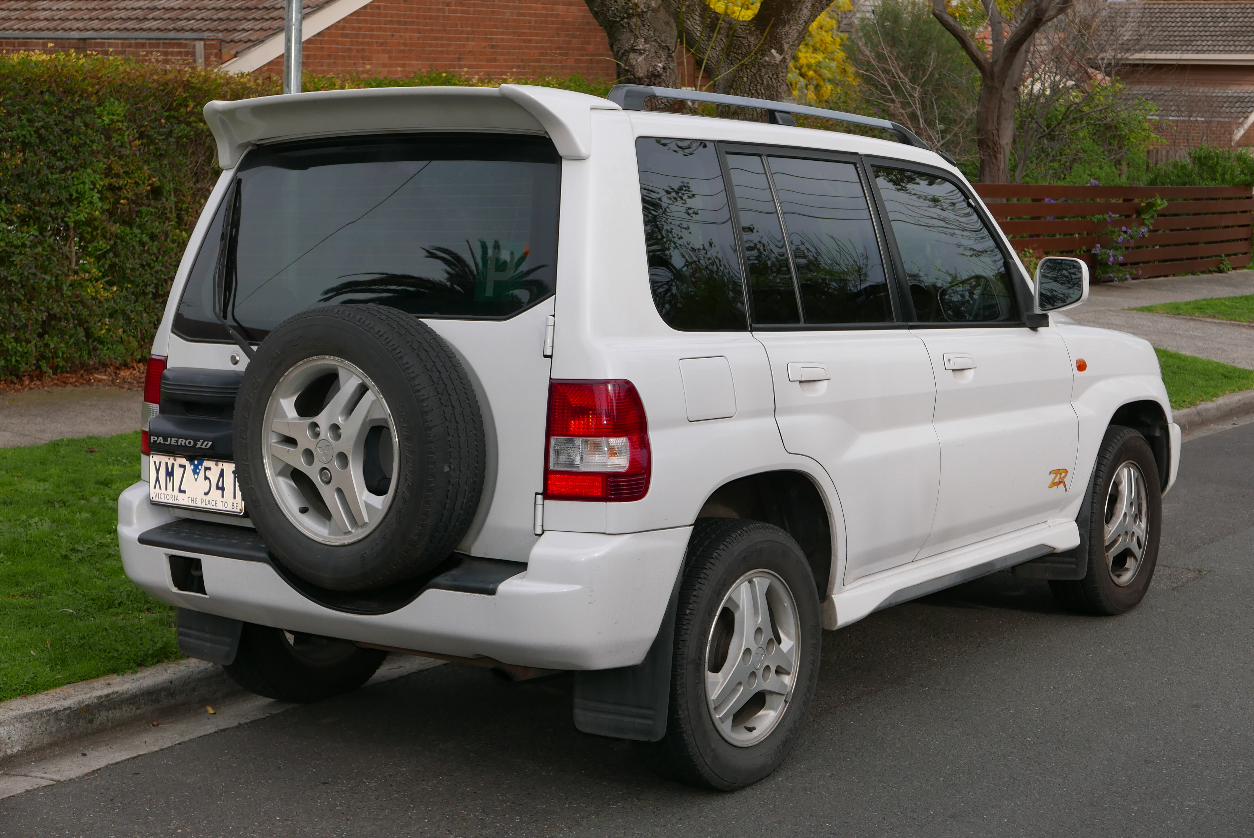 2002 Mitsubishi Pajero iO (QA MY02) ZR 5-door wagon. Despite the date discrepancy between the description and the vehicle registration information below, a check of the VIN reveals a build date of August 2002. Photographed in Ivanhoe, Victoria, Australia. Vehicle registration enquiry resultsJurisdictionVictoriaRegistrationXMZ541Chassis codeJMFLRH77W2Z000399Engine code4G94PB4528Compliance date2003-04Year of manufacture2003